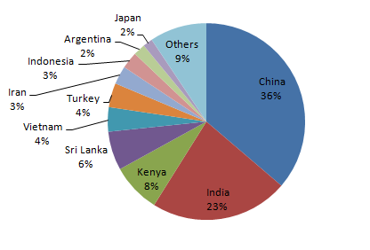 Percentage of tea production by ten largest tea producing countries in 2013